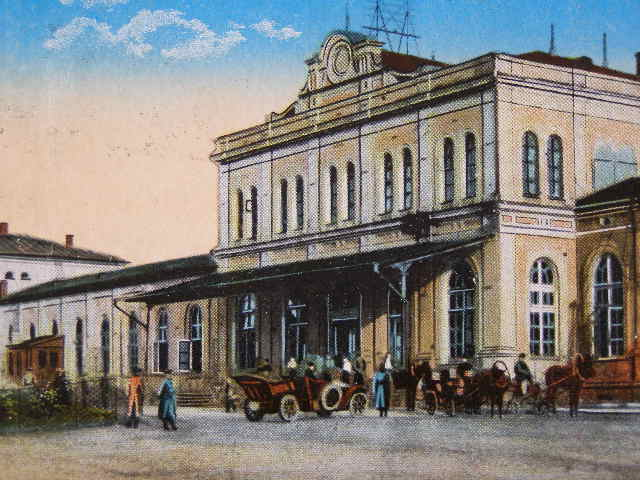 Vilnius train station on postcard (1915)